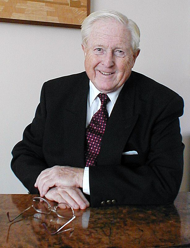 Image seen on Kings College website and permission sought from public relations office. Image not their copyright but that of Professor Gosling himself who in email stated: Re the photo. Feel free to use it. My wife took it so it does not need any acknowledgements! Kind regards, Ray Gosling I have somewhat cropped the original 725kb picture as will appear as small insert in article, and increased the JPEG compression a little to reduce to 81kb. David Ruben Talk 23:53, 8 August 2006 (UTC)